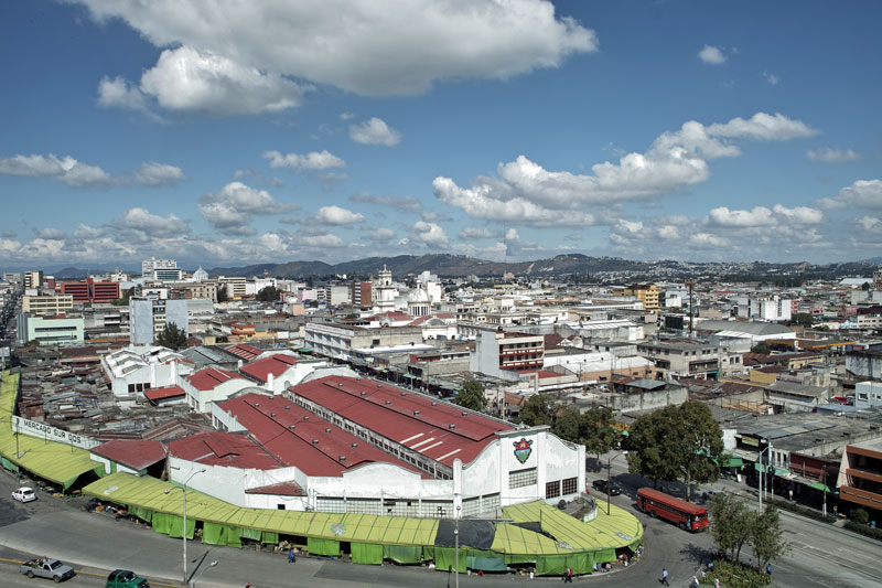 Guatemala city Zone 1 panoramic view